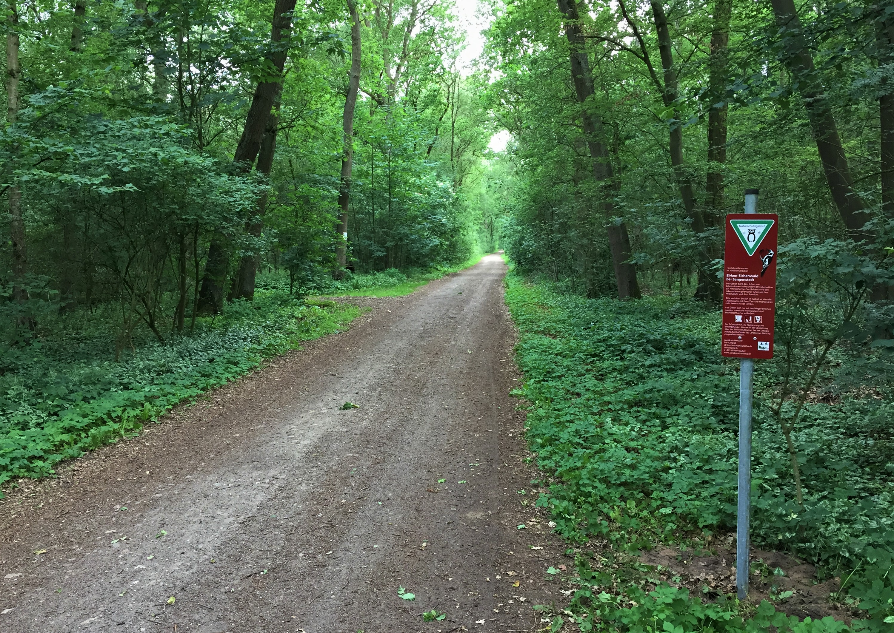 Nature reserve "Birken-Eichenwald near Sangenstedt" on Neulandsweg near Sangenstedt